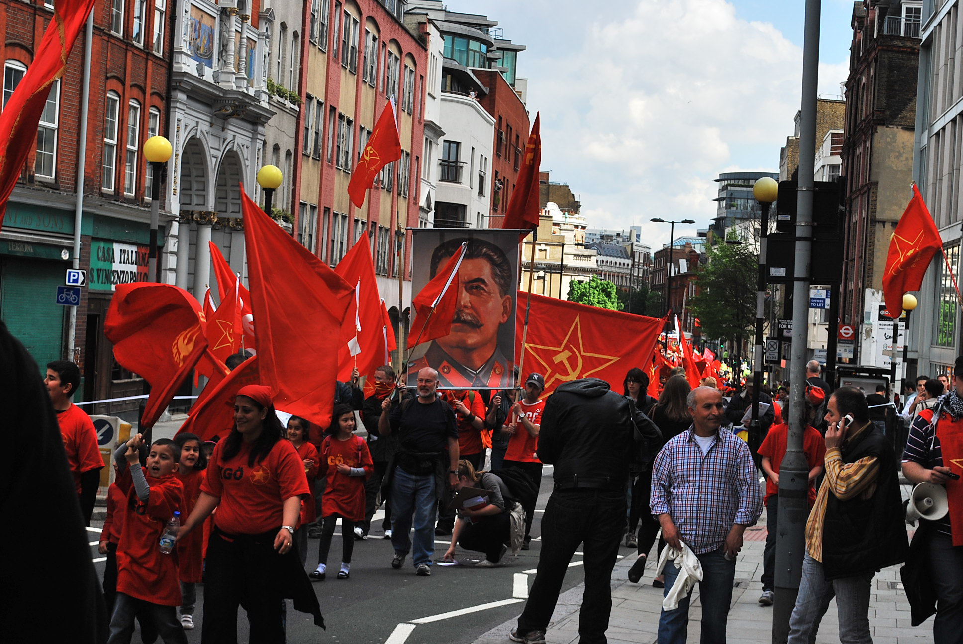 Banner of Stalin in London May 1, 2010 in Clerkenwell, London, GB.